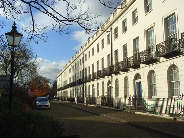 Albion Terrace, London Road, Reading This fine-looking terrace stands on the northern edge of the grid-square but its southern facade is within it. The houses date from about 1830 and are grade 2* listed. The far end of the terrace is on the corner of Sidmouth Street.